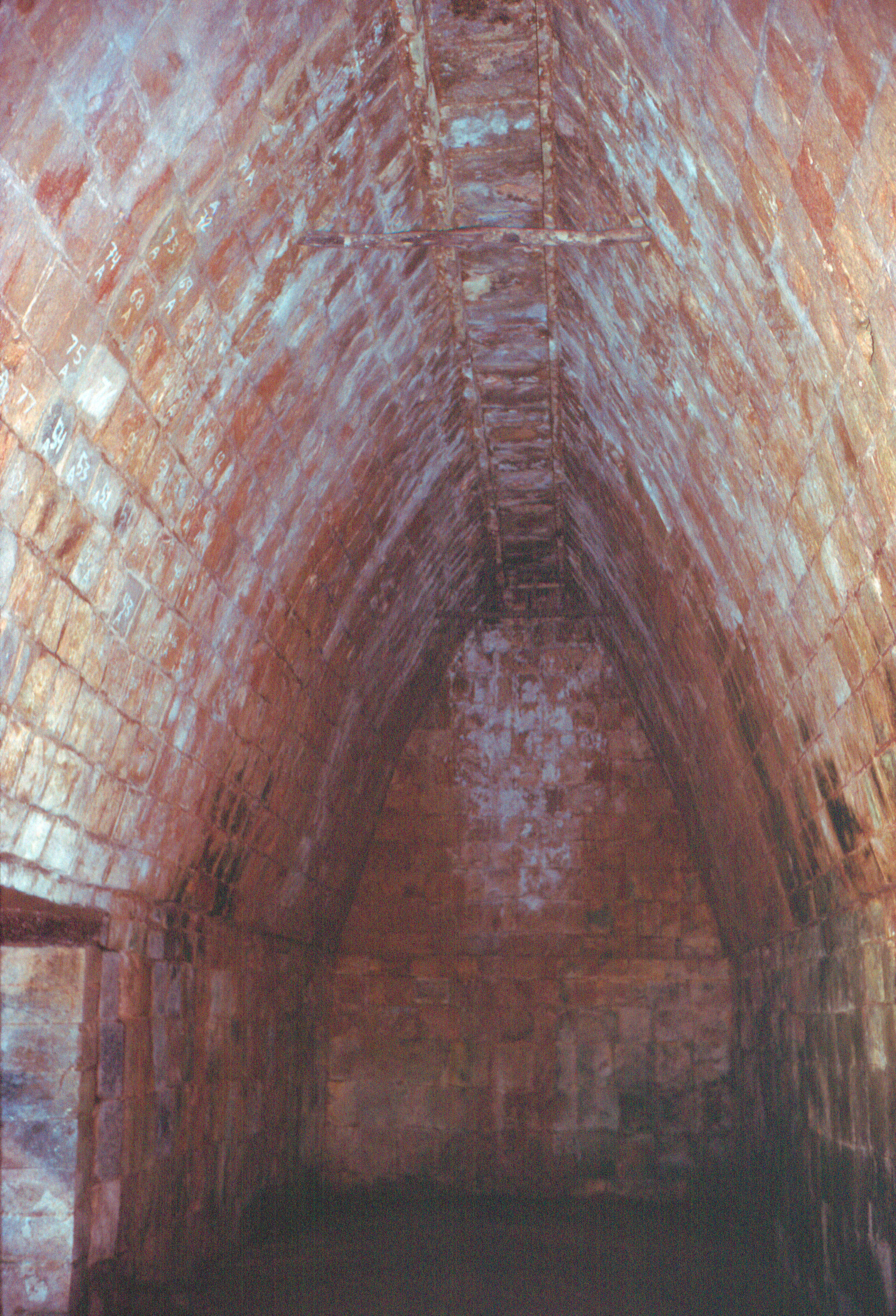 Uxmal, Yucatan, Mexico: Nunnery, Northern Annex, vault.